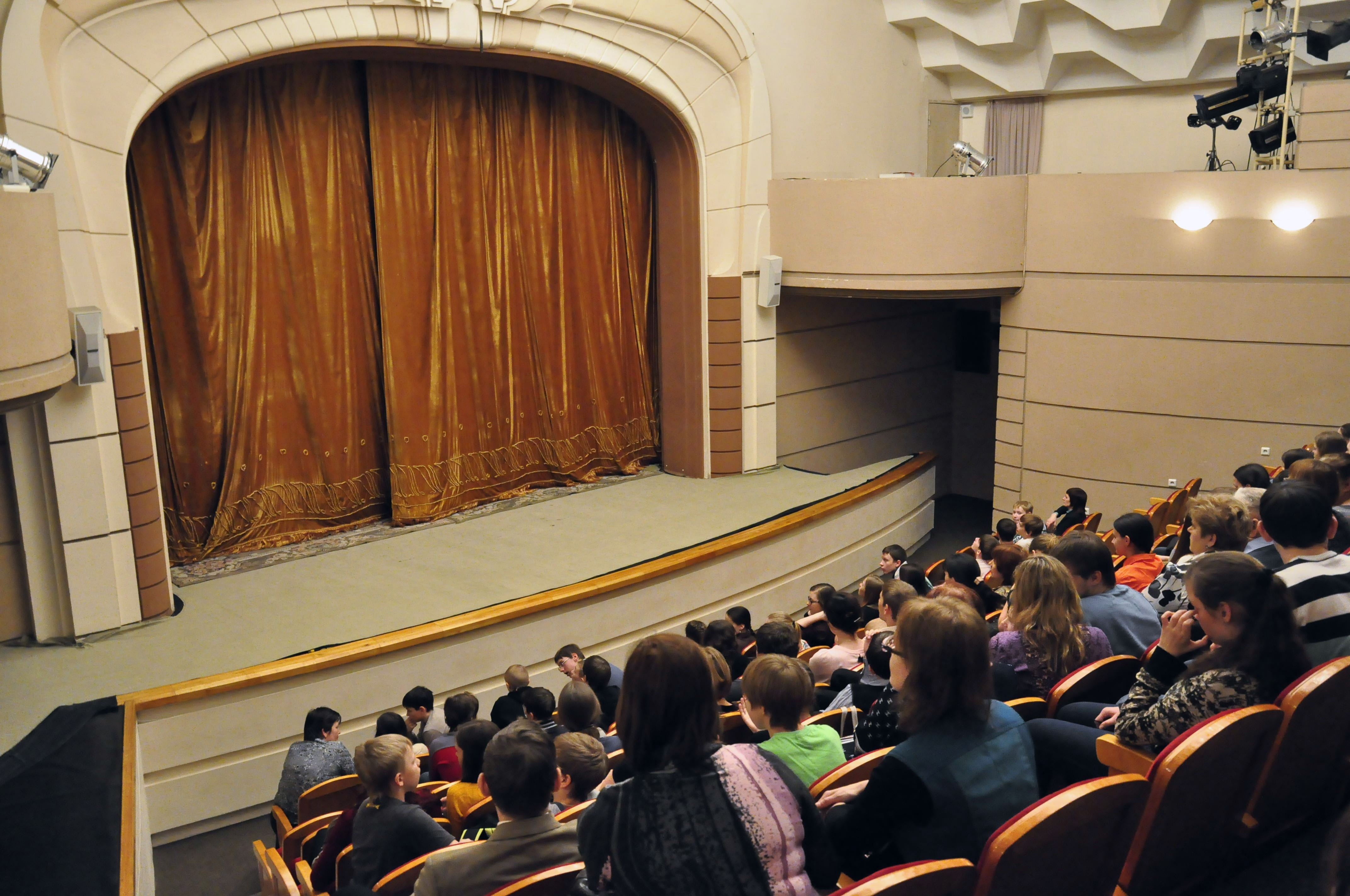 Schoolchildren before the daytime performance of the Chamber Theater, March 19, 2014